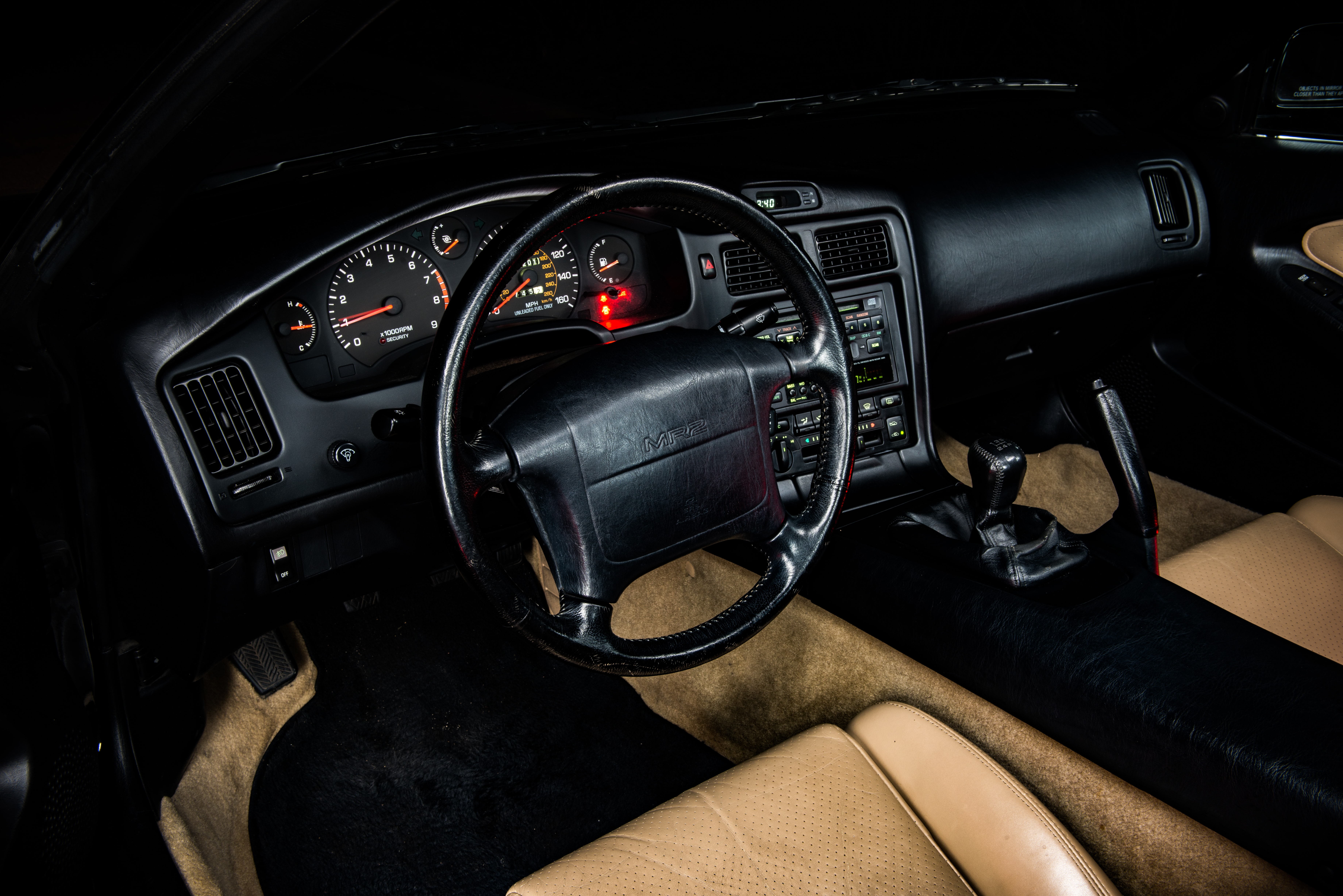 USDM SW20 Interior